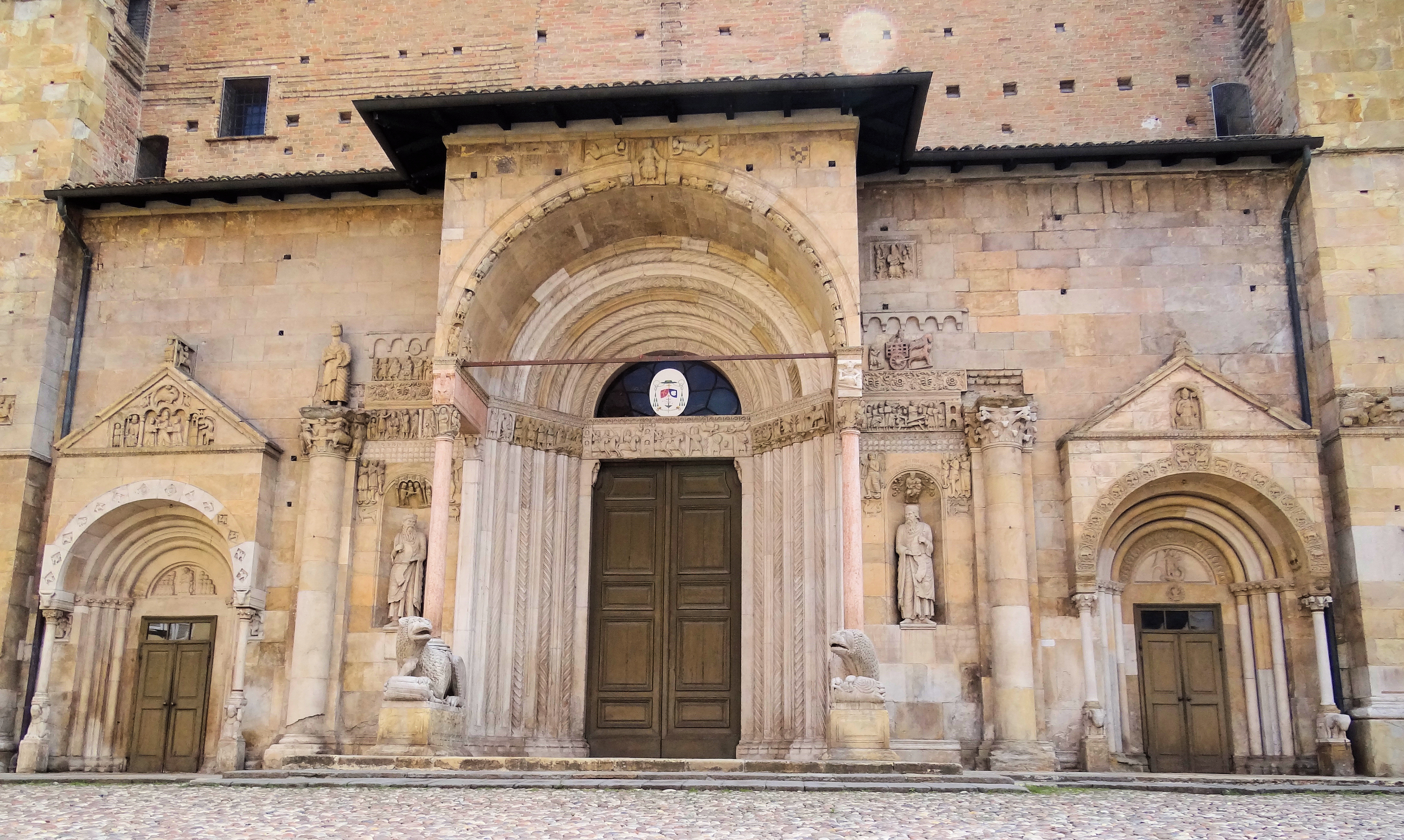 The lower part of the west-facing facade of the cathedral in Fidenza, a fine example of Romanesque architecture.